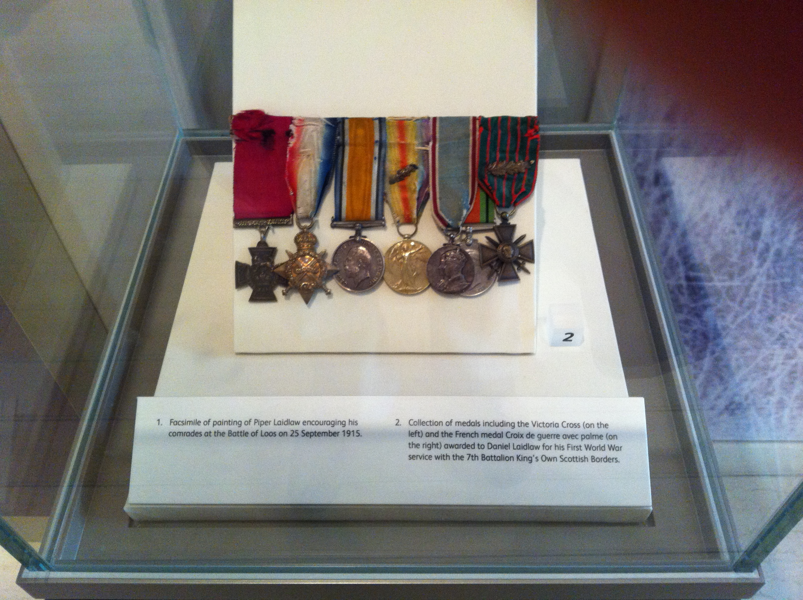 Picture taken by myself at the National Museum of Scotland where photography is permitted